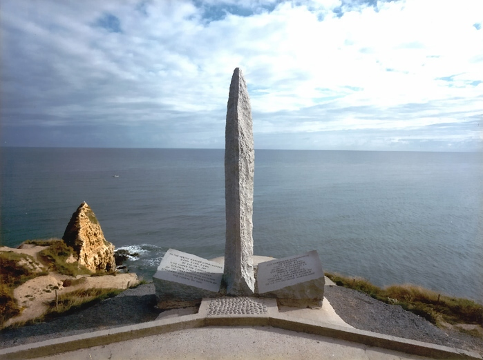 The World War II Pointe du Hoc Ranger Monument is located on a cliff eight miles west of Normandy American Cemetery and Memorial, which overlooks Omaha Beach.